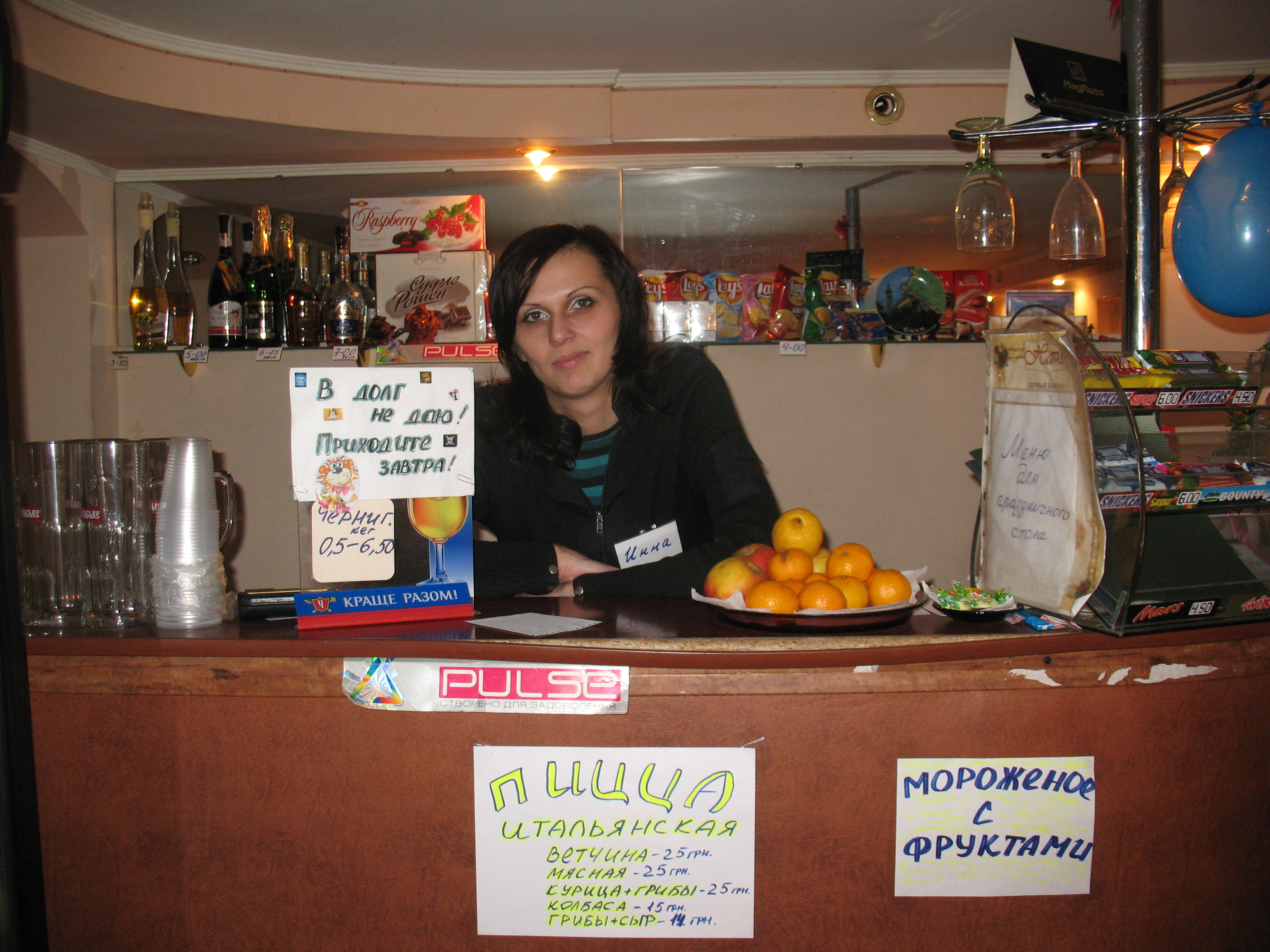 Barwomen Inna in Kharkov City.